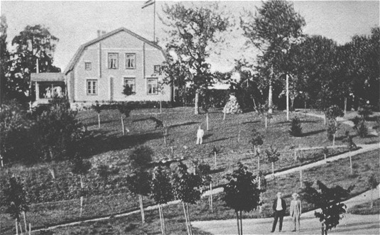 Vaanila Mansion at the village of Vaanila, Lohja, Finland